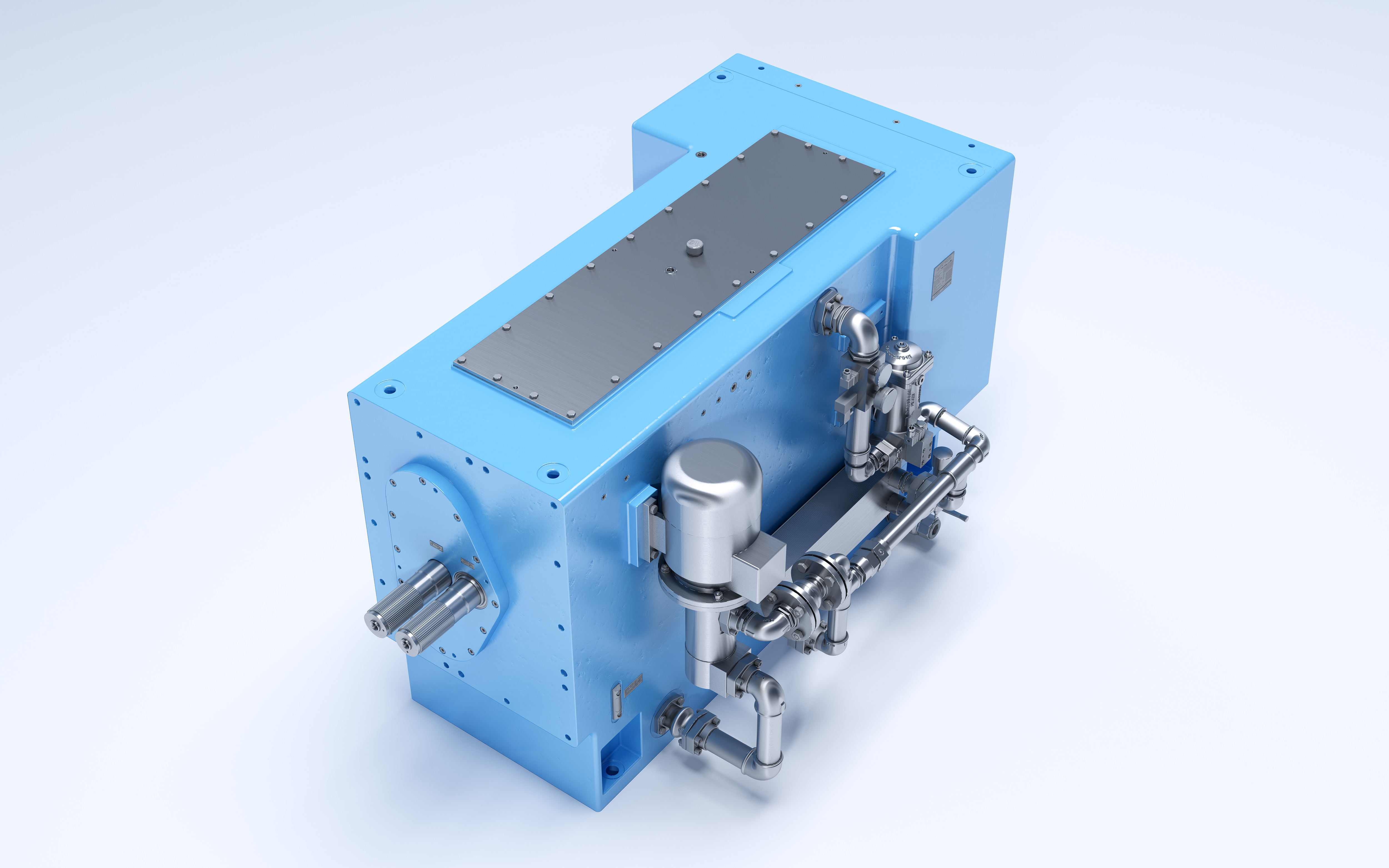 EISENBEISS co-rotating twin screw extruder gearbox